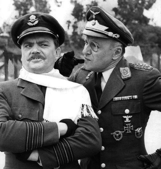 Photo of Bernard Fox as Captain Critterton and Werner Klemperer as Commandant Klink from the television program Hogan's Heroes.